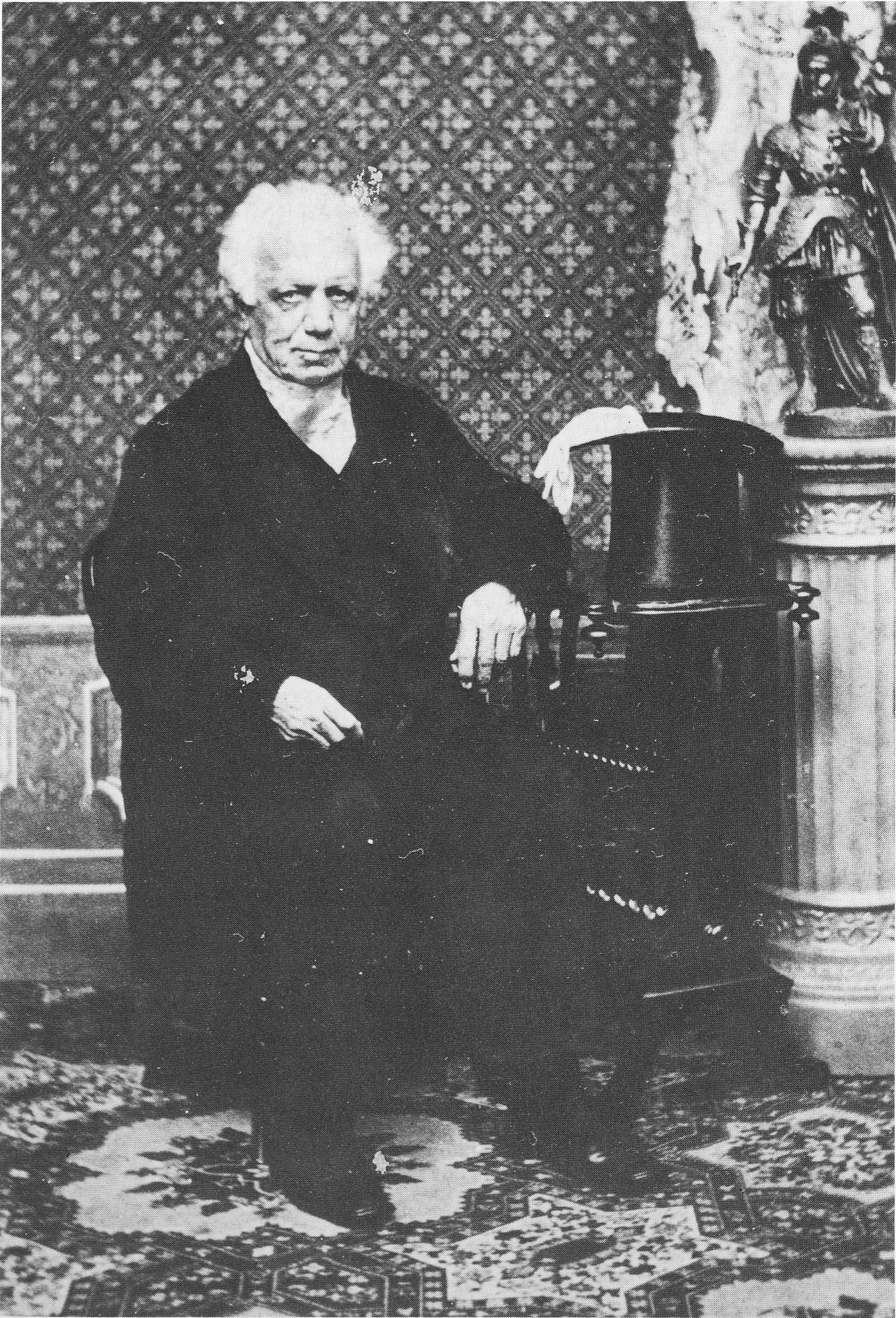 Dr William Bland an early land holder in Ashfield, New South Wales, Australia (after whom Bland Street, Ashfield, was named)